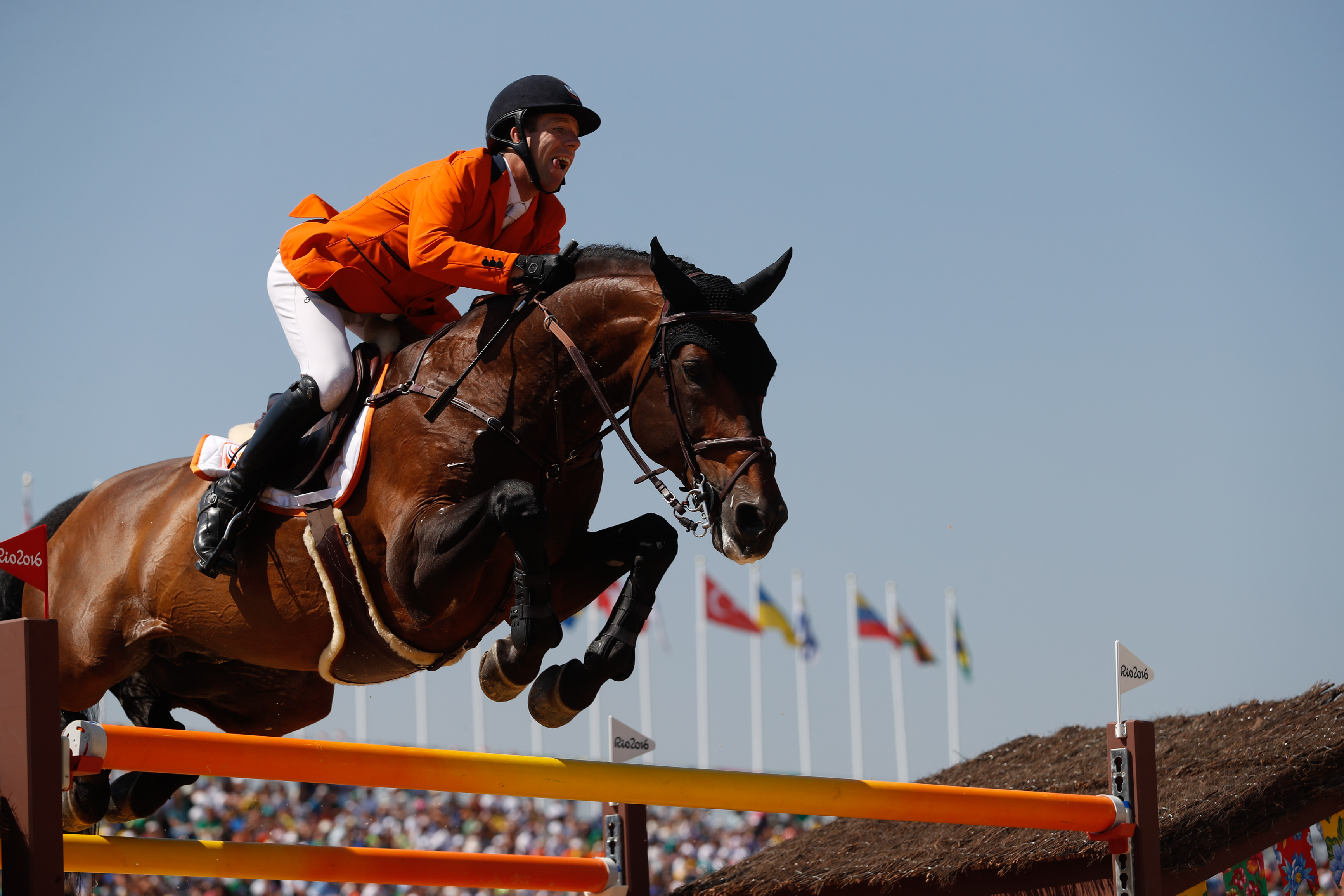 Rio de Janeiro - Cavaleiro da Holanda Maikel Van Der Vleuten na competição de saltos do hipismo por equipes nos Jogos Olímpicos Rio 2016, em Deodoro. ( Fernando Frazão/Agência Brasil)